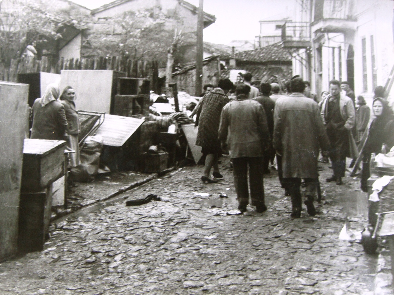 Pajko neighborhood, flood, 1962 This media file is produced by Wikipedian in Residence in Category:Wikipedian in Residence at DARM in 2016.